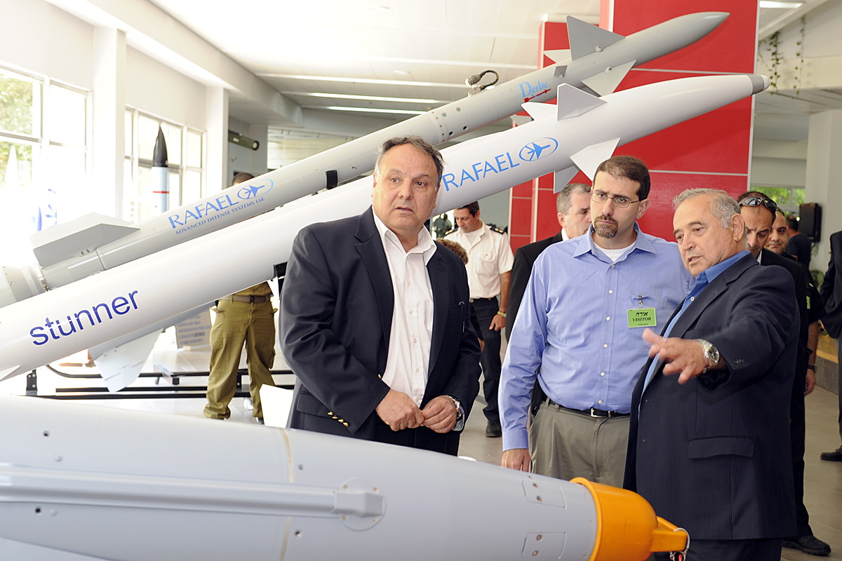 Ambassador Dan Shapiro visited the Rafael plant where he was briefed by company leaders and Defense Ministry officials about Iron Dome and the continuing development of David's Sling, both part of the multi-layered missile defense system being developed in close cooperation between the industries and governments of the U.S. and Israel.